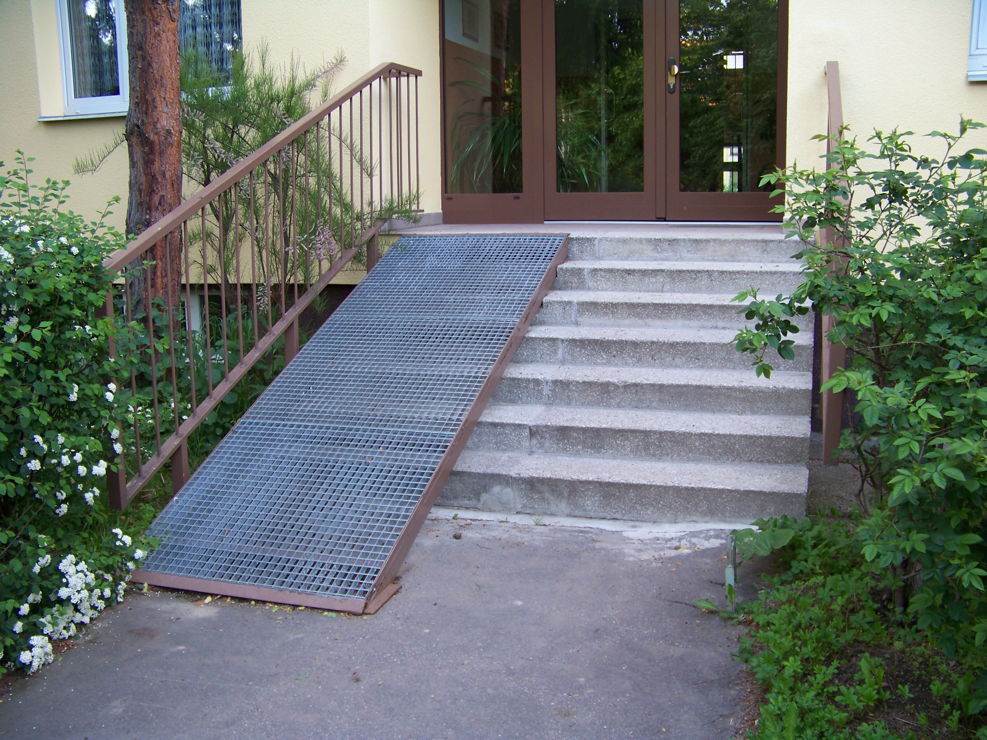 Háje, Prague, the Czech Republic. Kropáčkova street.